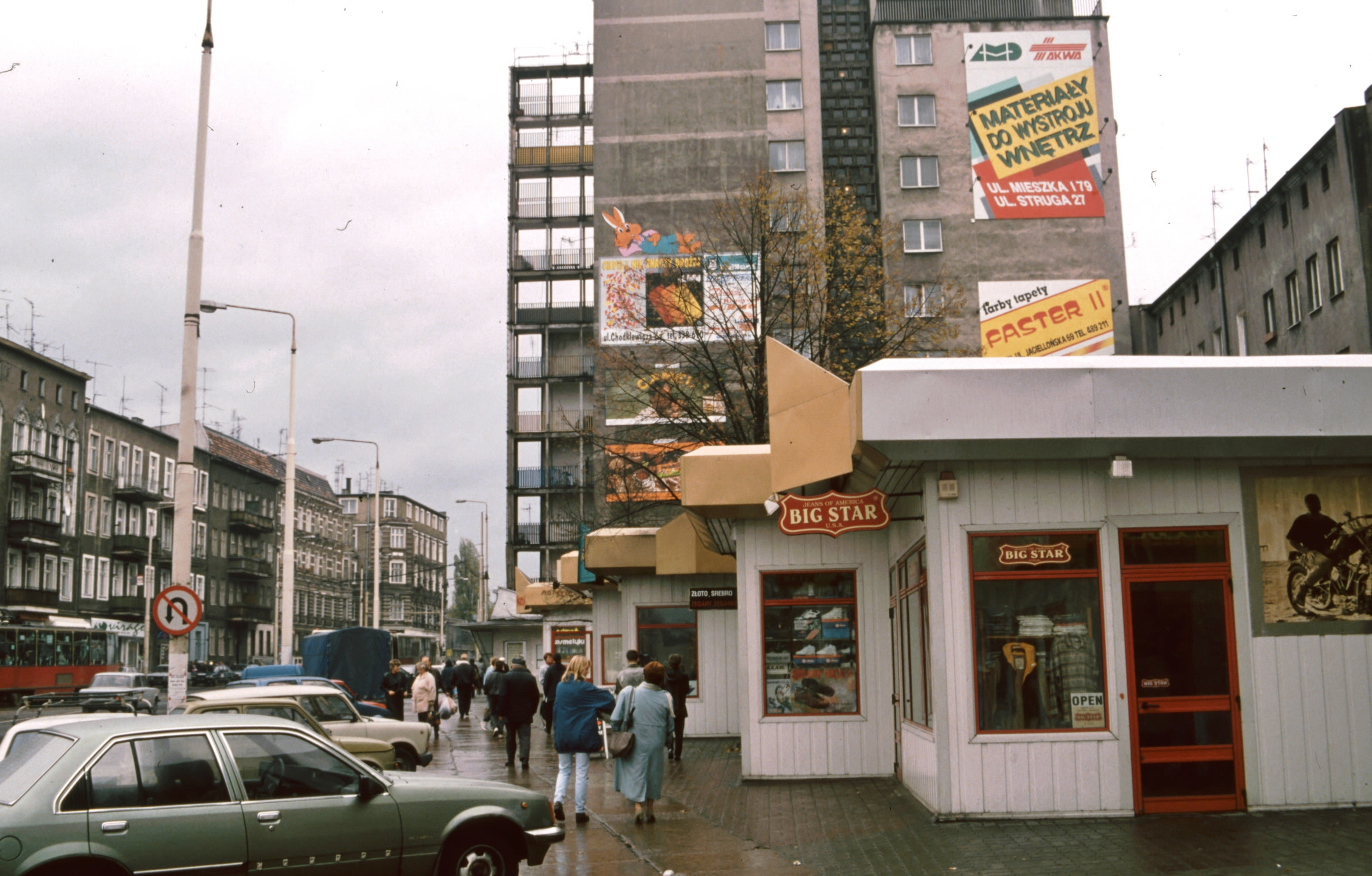 View from the bus stop at Kościuszki Square into Bolesława Krzywoustego Street, city centre of Szczecin, Poland